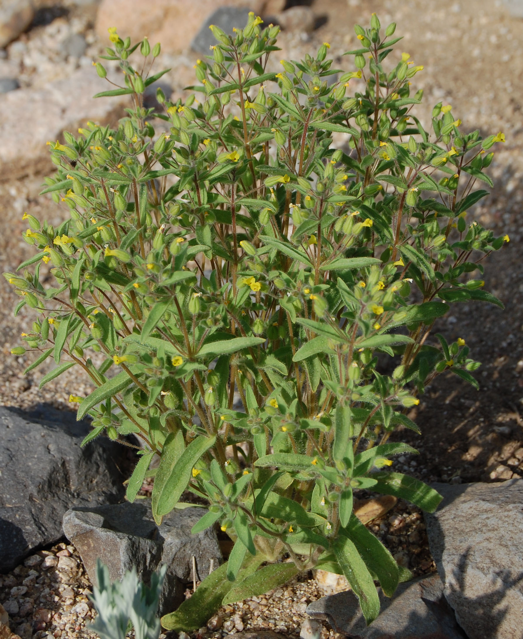 Mimulus pilosus (formerly Mimetanthe pilosa. In eastern Maricopa County, Arizona.